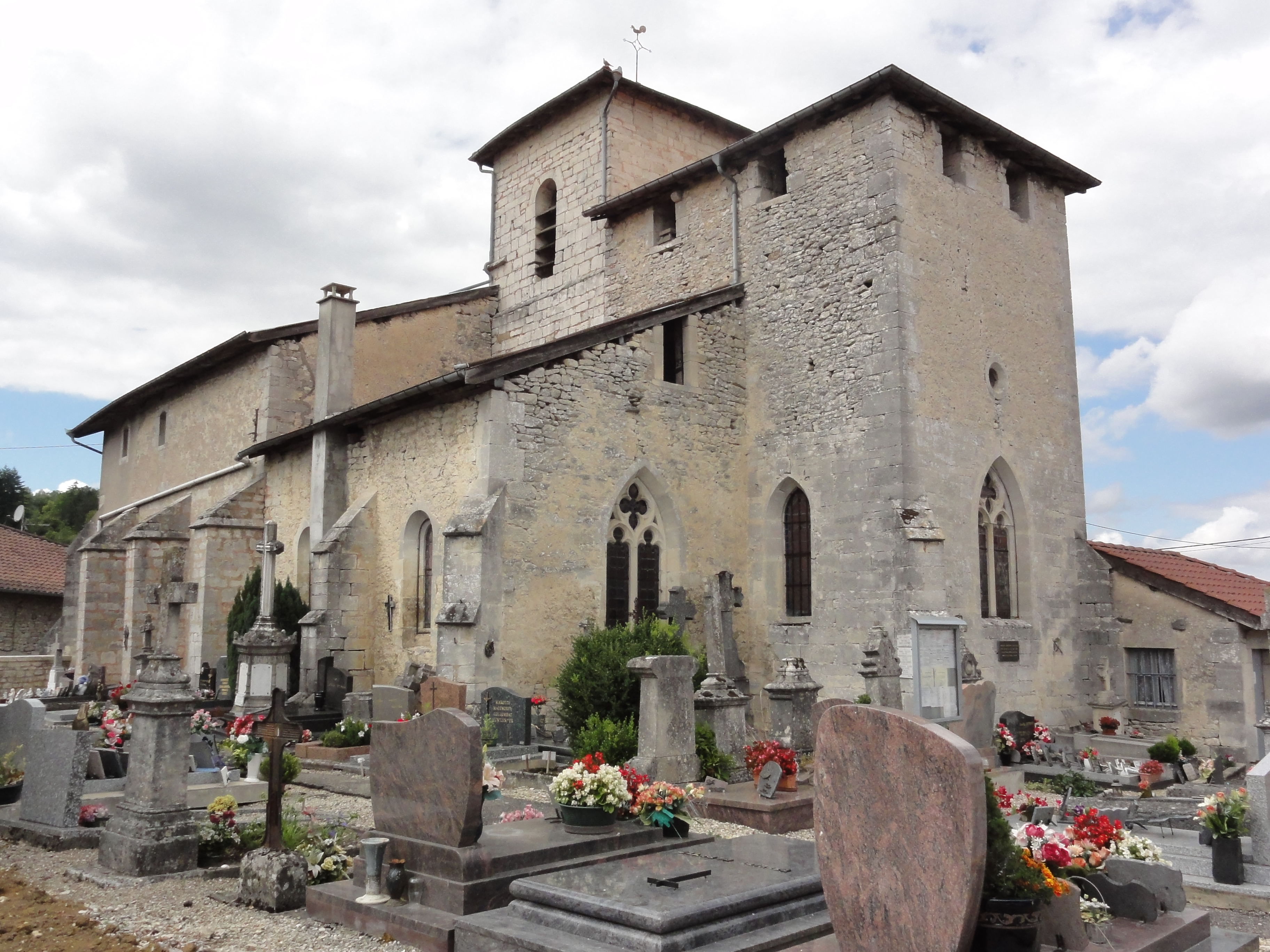 Longeaux (Meuse) église Saint-Gengoult